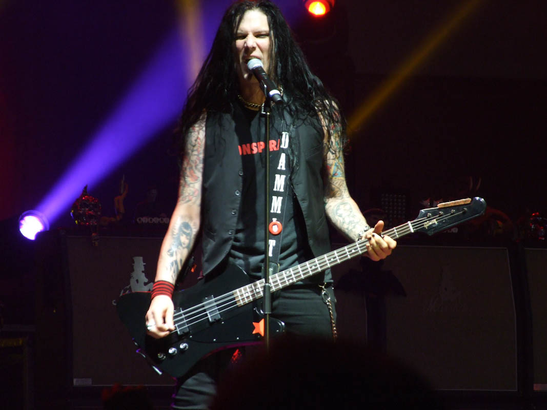 The Canadian bass guitarist Todd Kerns performing with Slash at Hristo Botev Hall, Sofia, as part of the World On Fire Tour 2015.